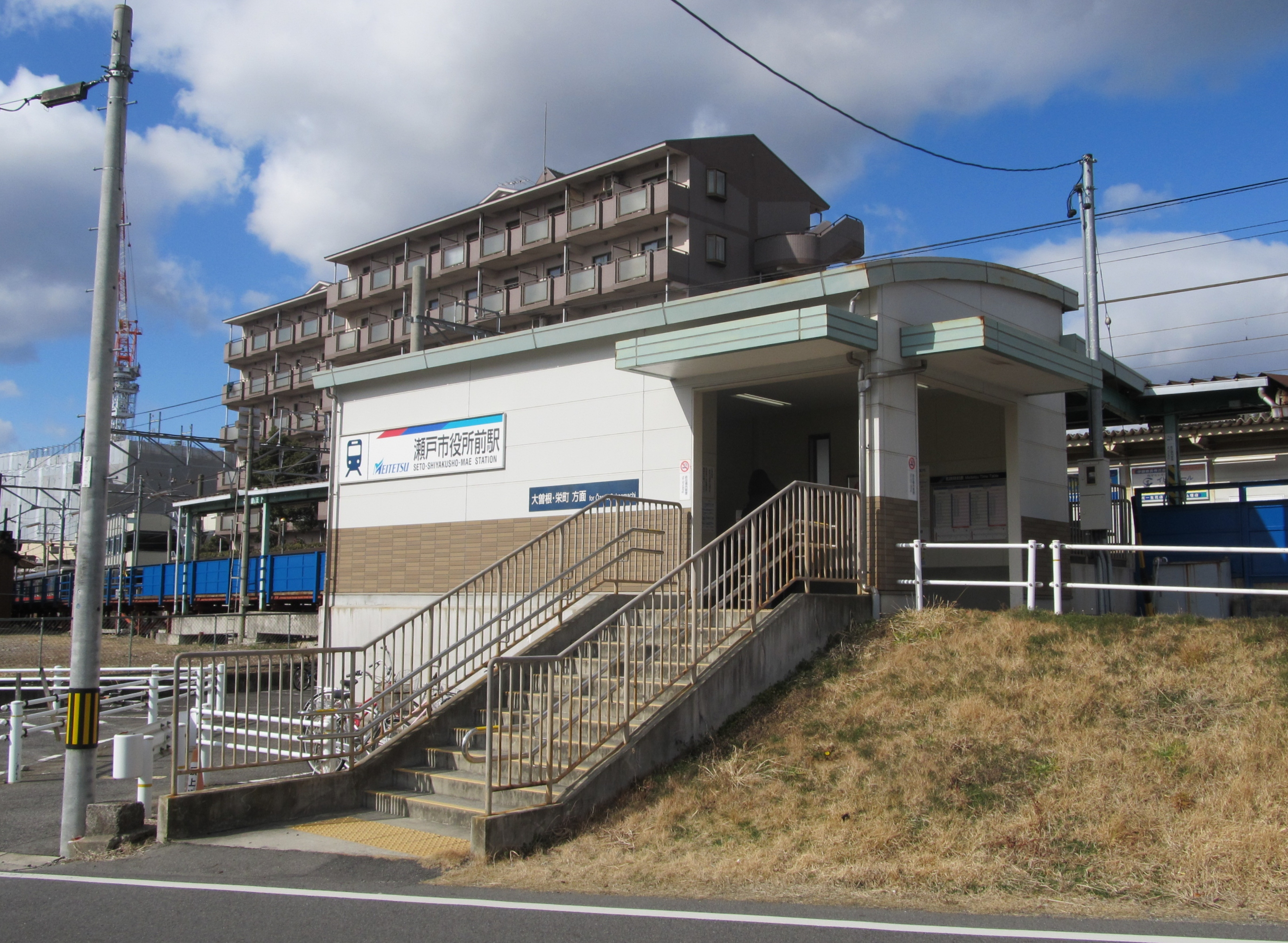 Nagoya Railroad Seto Line Seto-Shiyakusho-mae Station Building (for Sakaemachi)